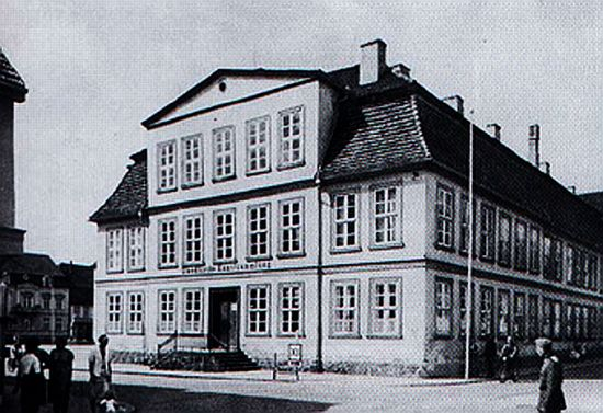 Castle in Neubrandenburg, Mecklenburg-Strelitz, Germany, 1920, destroyed 1945